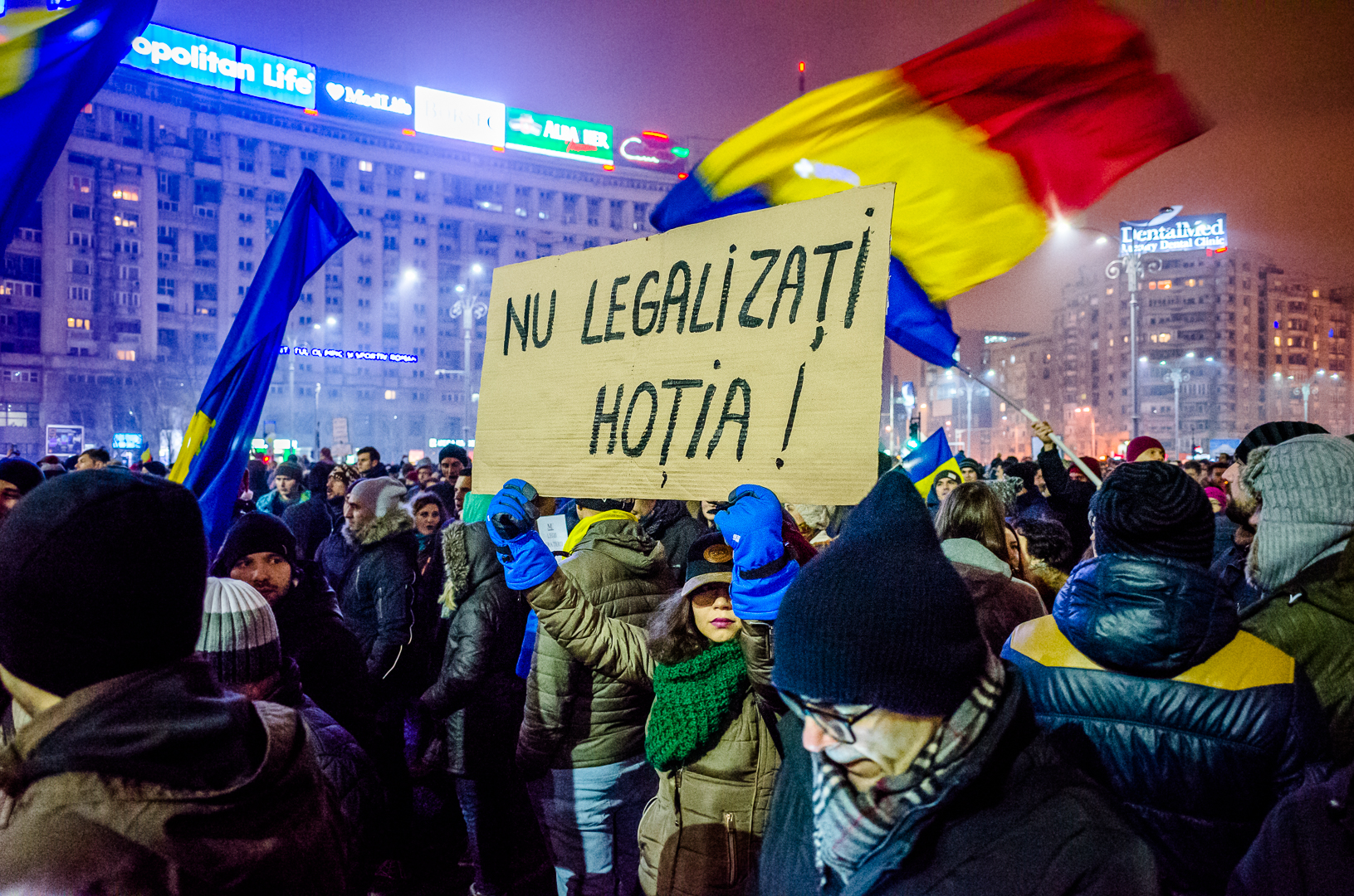 Protest against corruption - Bucharest 2017 - Piata Victoriei